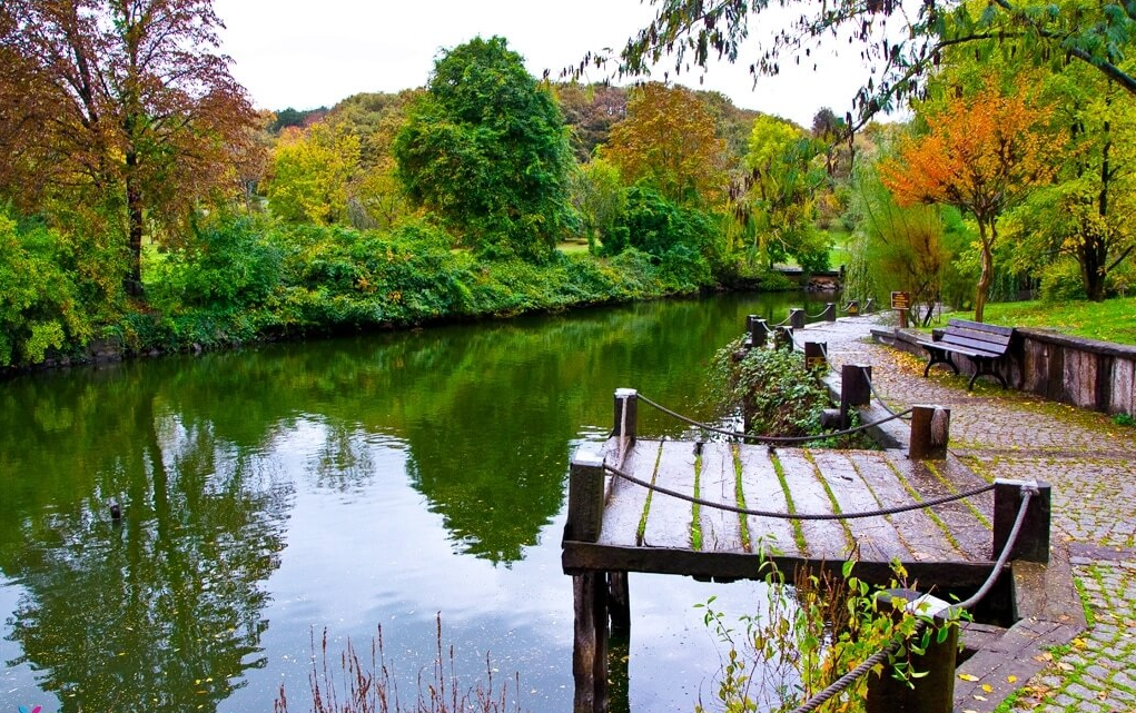 Ataturk Arboretum in Sariyer, Istanbul